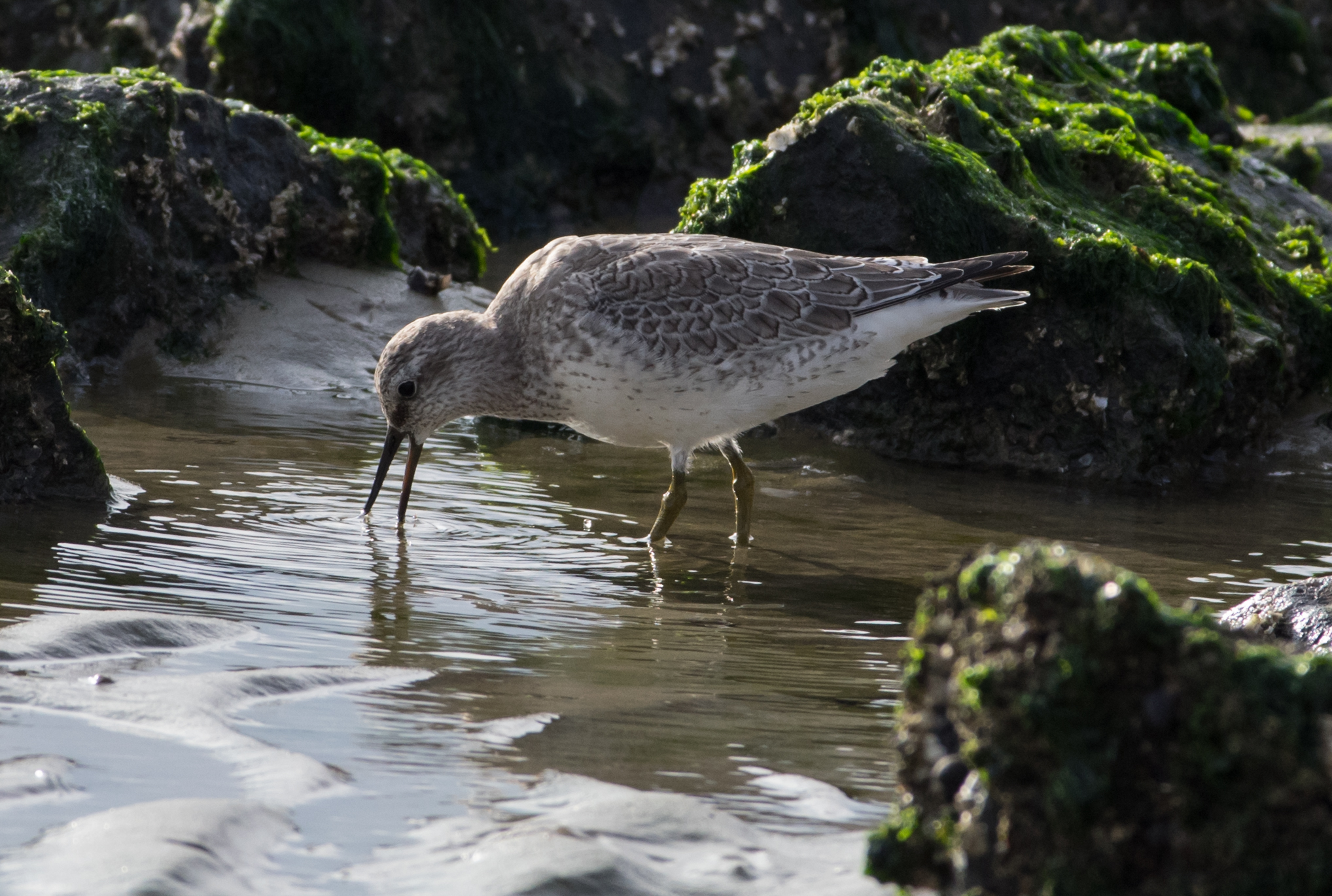 Red Knot (juvenile), on the island of Borkum, Germany